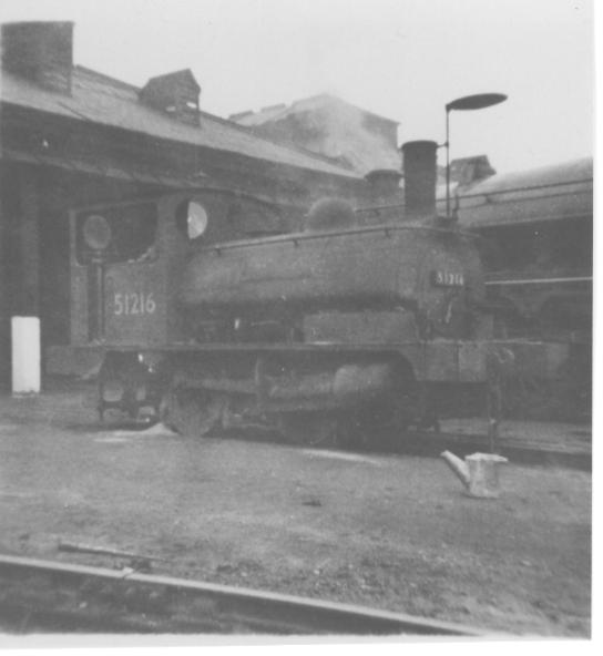 LYR Class 21 0-4-0ST 'Pug' 51216 at Bank Hall MPD, Liverpool